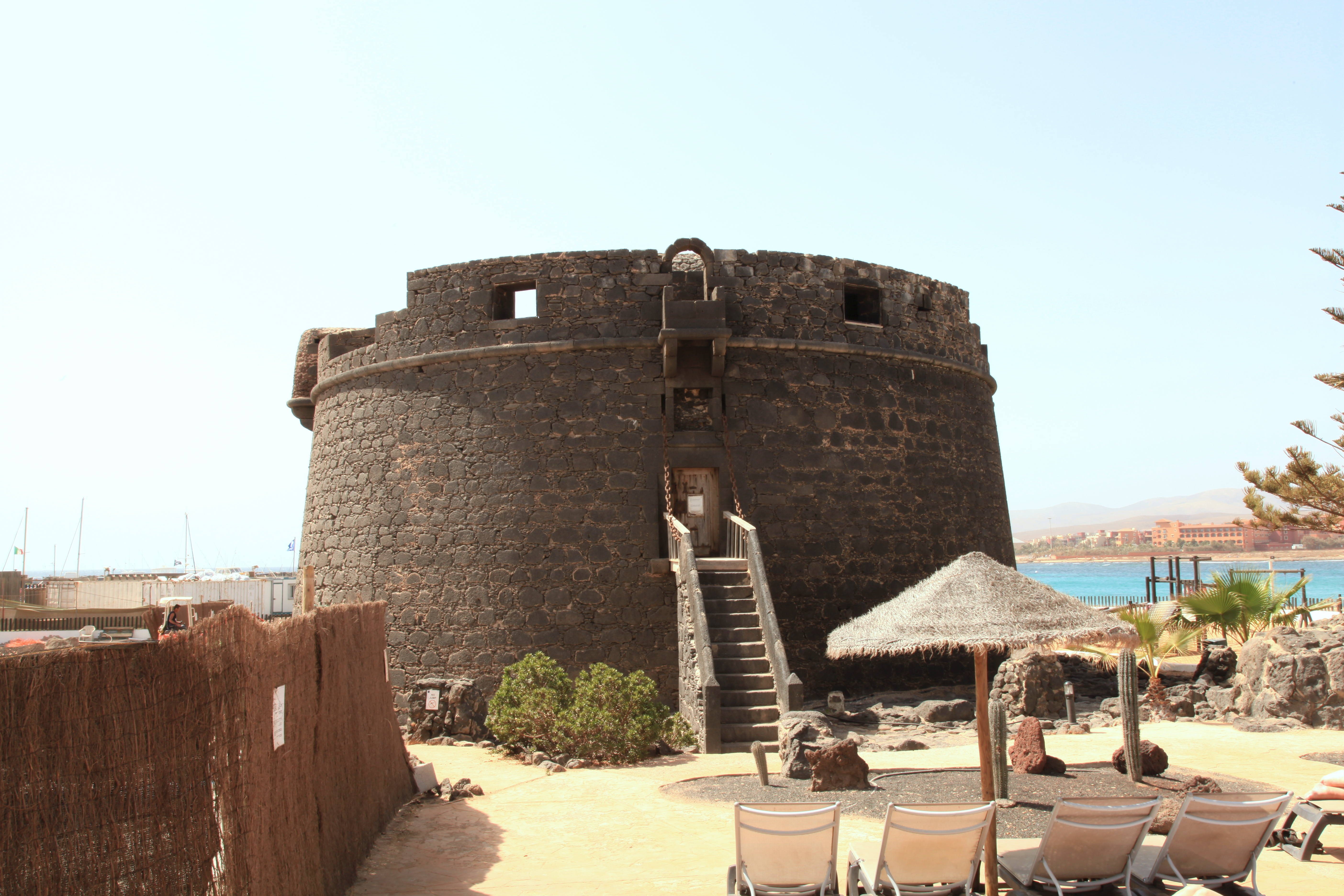 Castillo, occupied by a hotel at Calle del Castillo, Caleta de Fuste in Antigua, Fuerteventura, Canary Islands